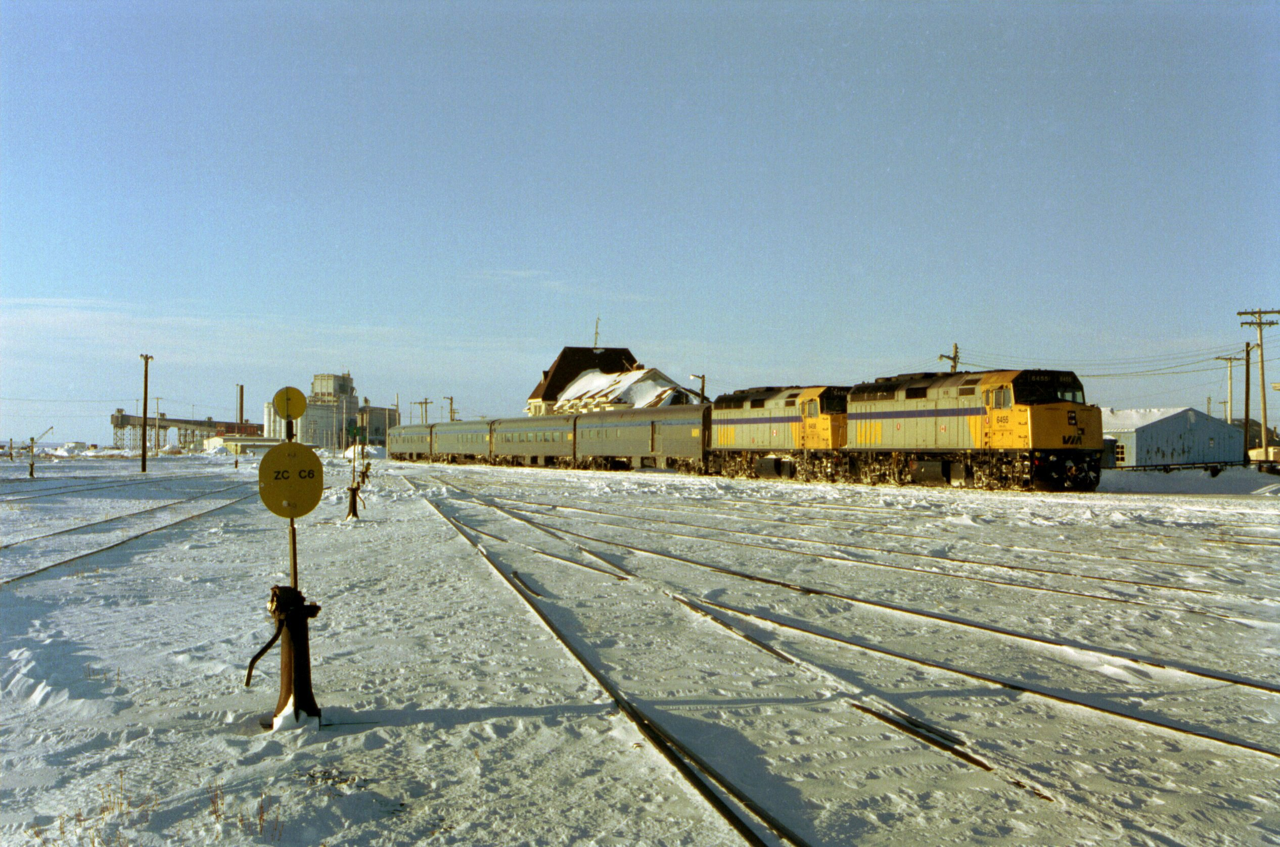 Via Rail train in Churchill station